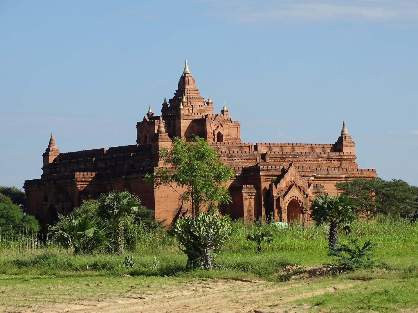 Bagan,Pyathada temple